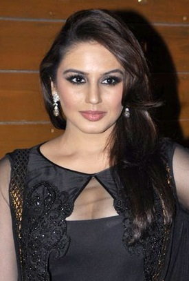 Huma Qureshi at 58th Filmfare Awards